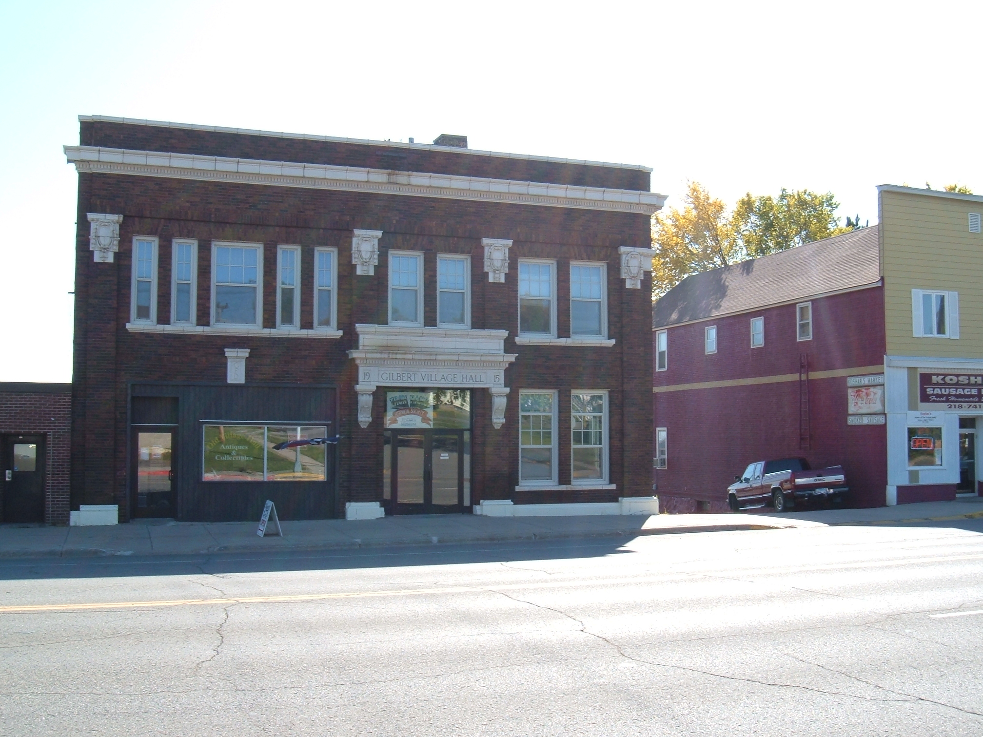 The Iron Range Historical Society is located in the old Gilbert City Hall.